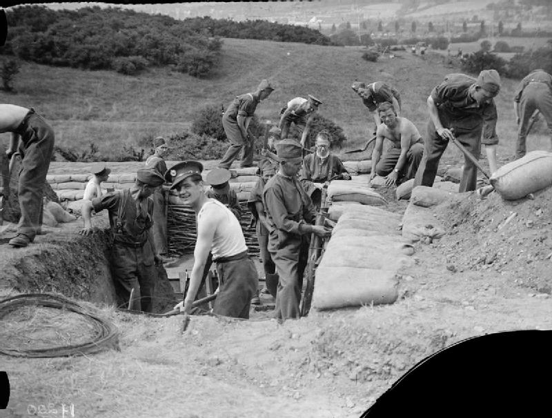 The British Army in the United Kingdom 1939-45 Royal Engineers digging trenches, 1939.